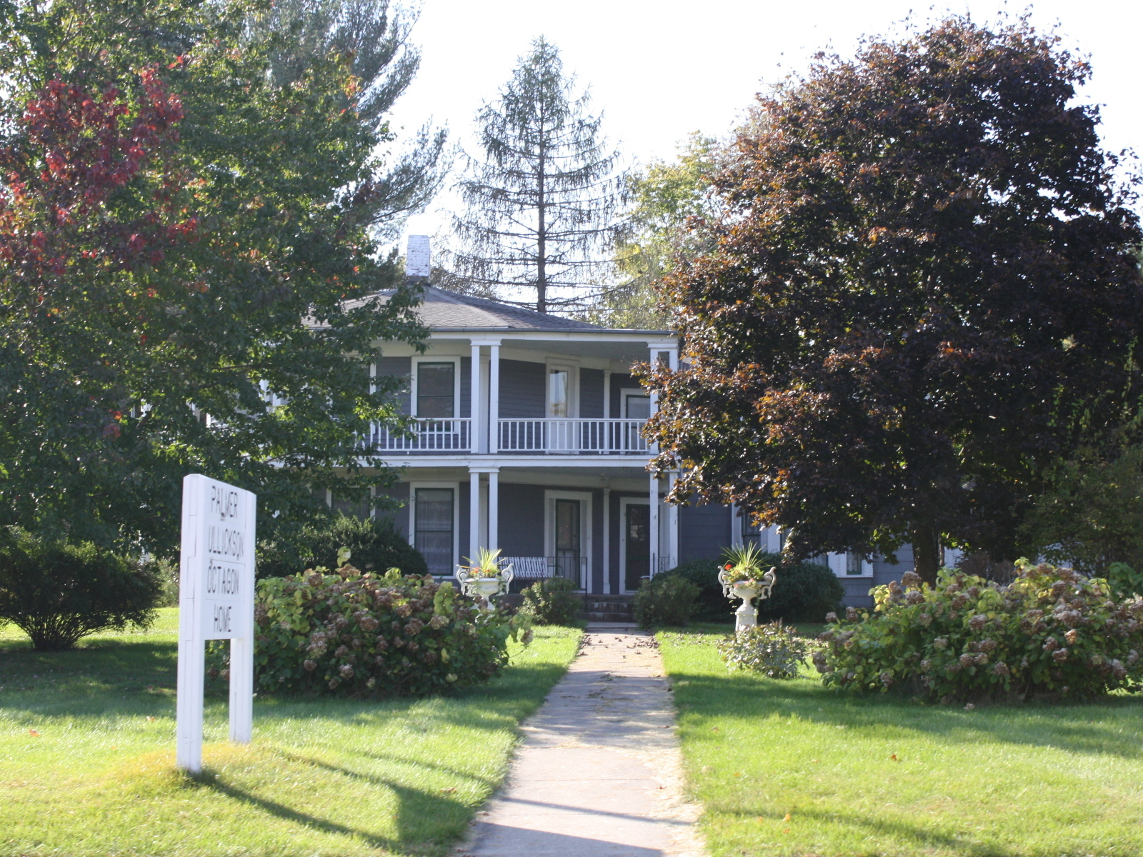 Looking west at the Palmer-Gullickson House in West Salem, Wisconsin. It is listed on the National Register of Historic Places as one of the two Palmer Brother's Octagons.